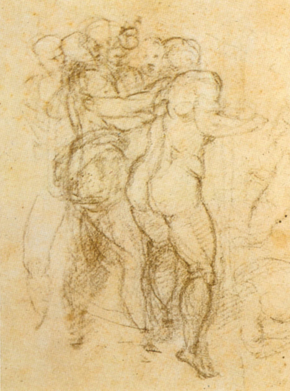 MICHELANGELO Buonarroti Last Judgment